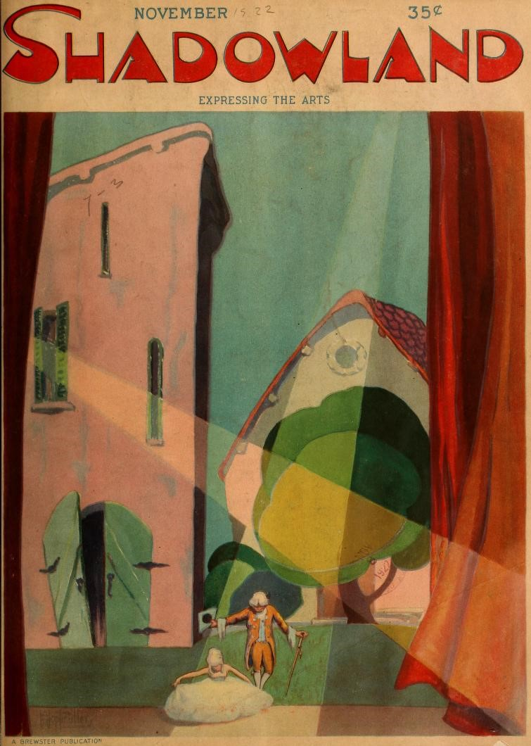 An art deco designed cover designed by A. M. Hopfuller for Shadowland.